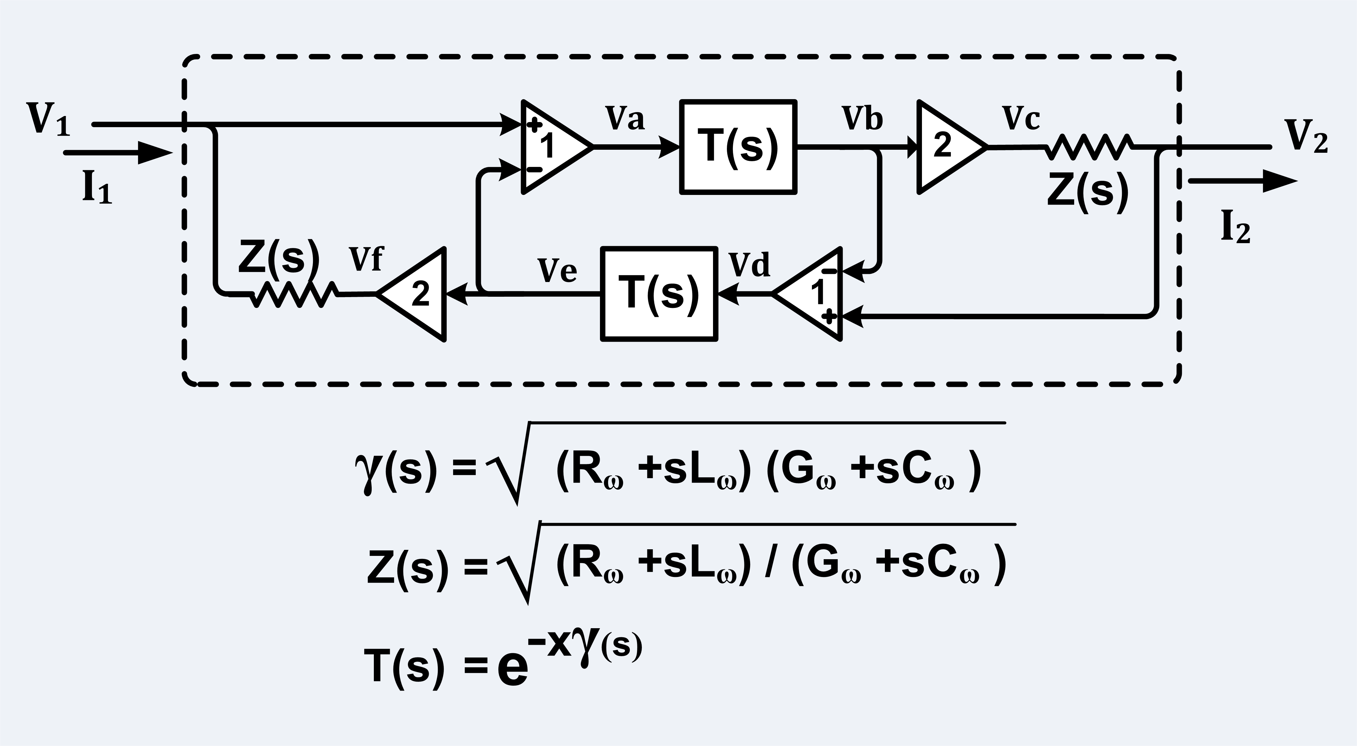 Equivalent circuit of an unbalanced transmission line (such as coaxial cable). where: X = length of transmission line, Z(s) = characteristic impedance, T(s) = propagation function, γ(s) = propagation “constant”, s = jω, j²=-1. Note: Rω, Lω, Gω and Cω may be functions of frequency.